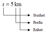 Illustration made by me; describing quantity (storhet), prefix (prefix) and unit (enhet).